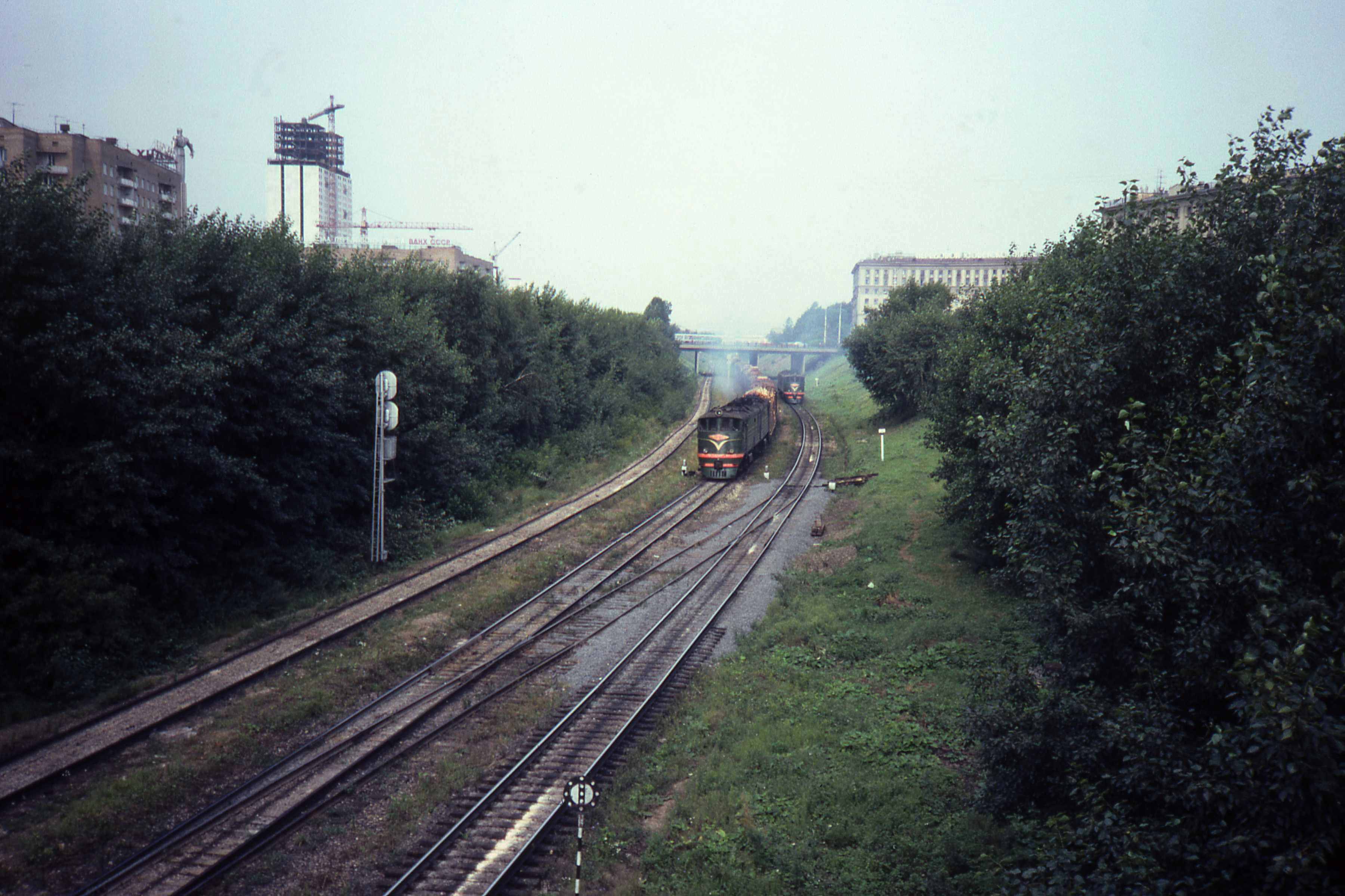 Freigth train on the Moscow Little Ring Railway. This is now covered and a big square (Leninsky Prospekt). Note the Youri Gagarine statue on the left.